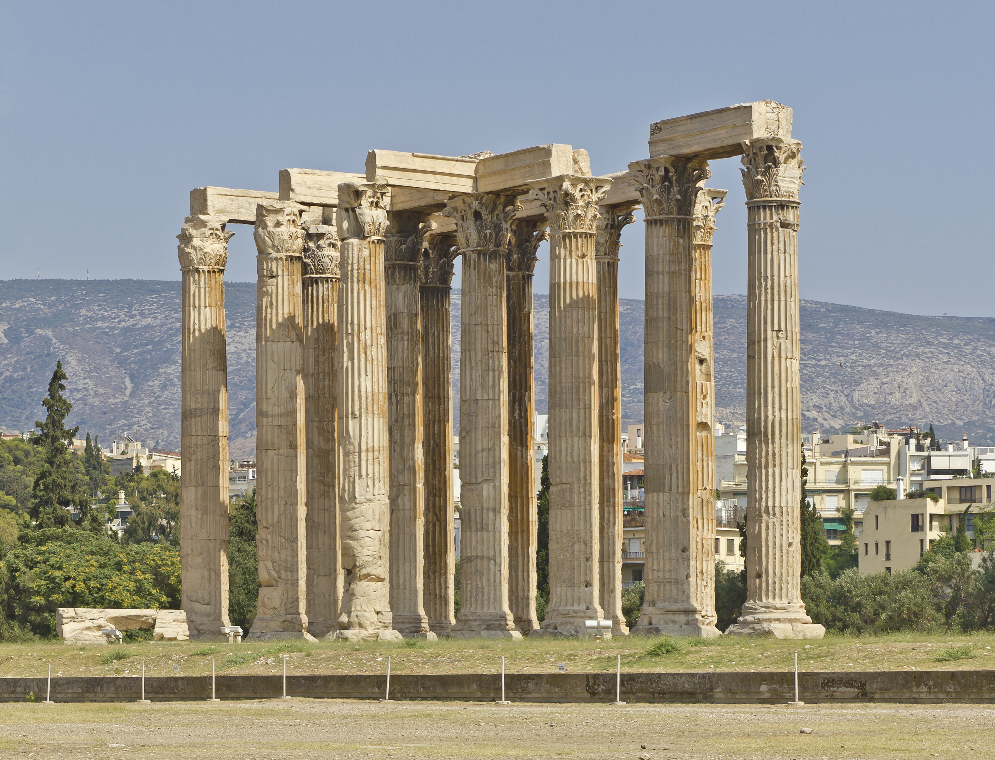 Temple of Olympian Zeus in Athens (Attica, Greece)